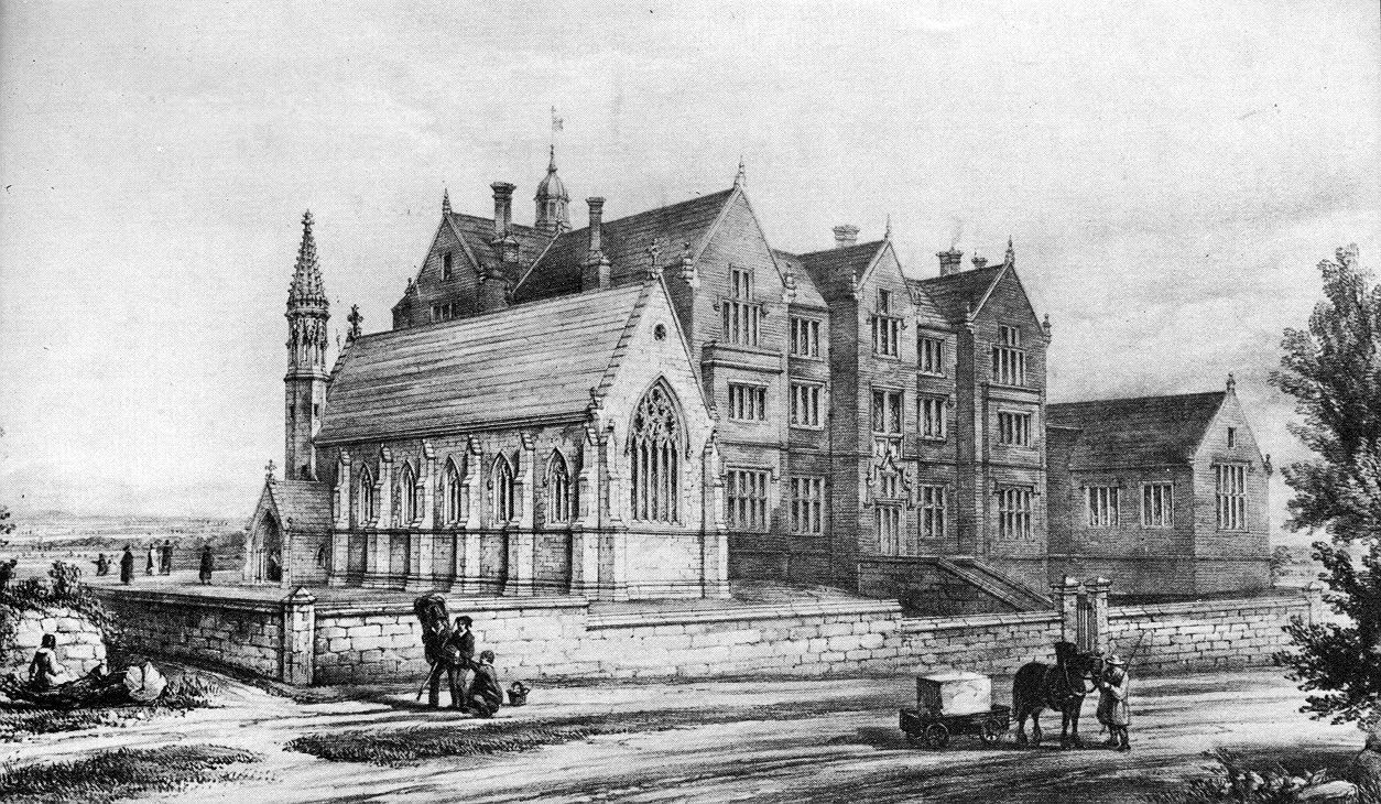 A drawing of the University of Chester's original building (still in use and now known as Old College) in 1843, a year after it opened